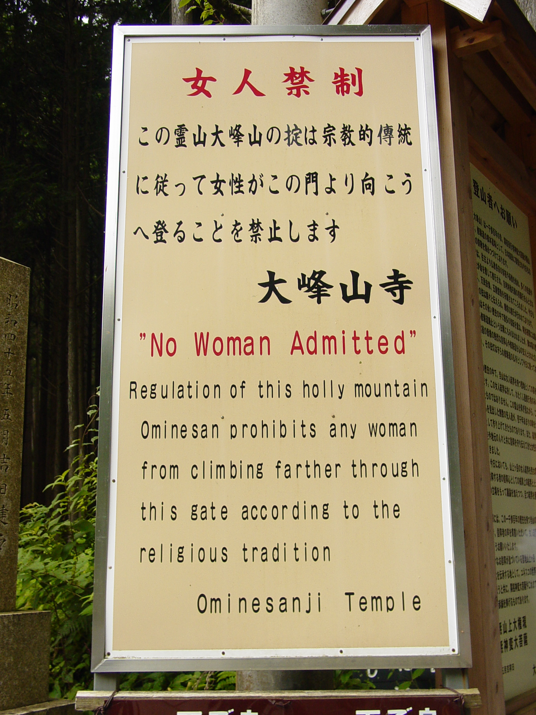 Warning sign at the Ōmine-san, a mountain holy to the Shugendō religion